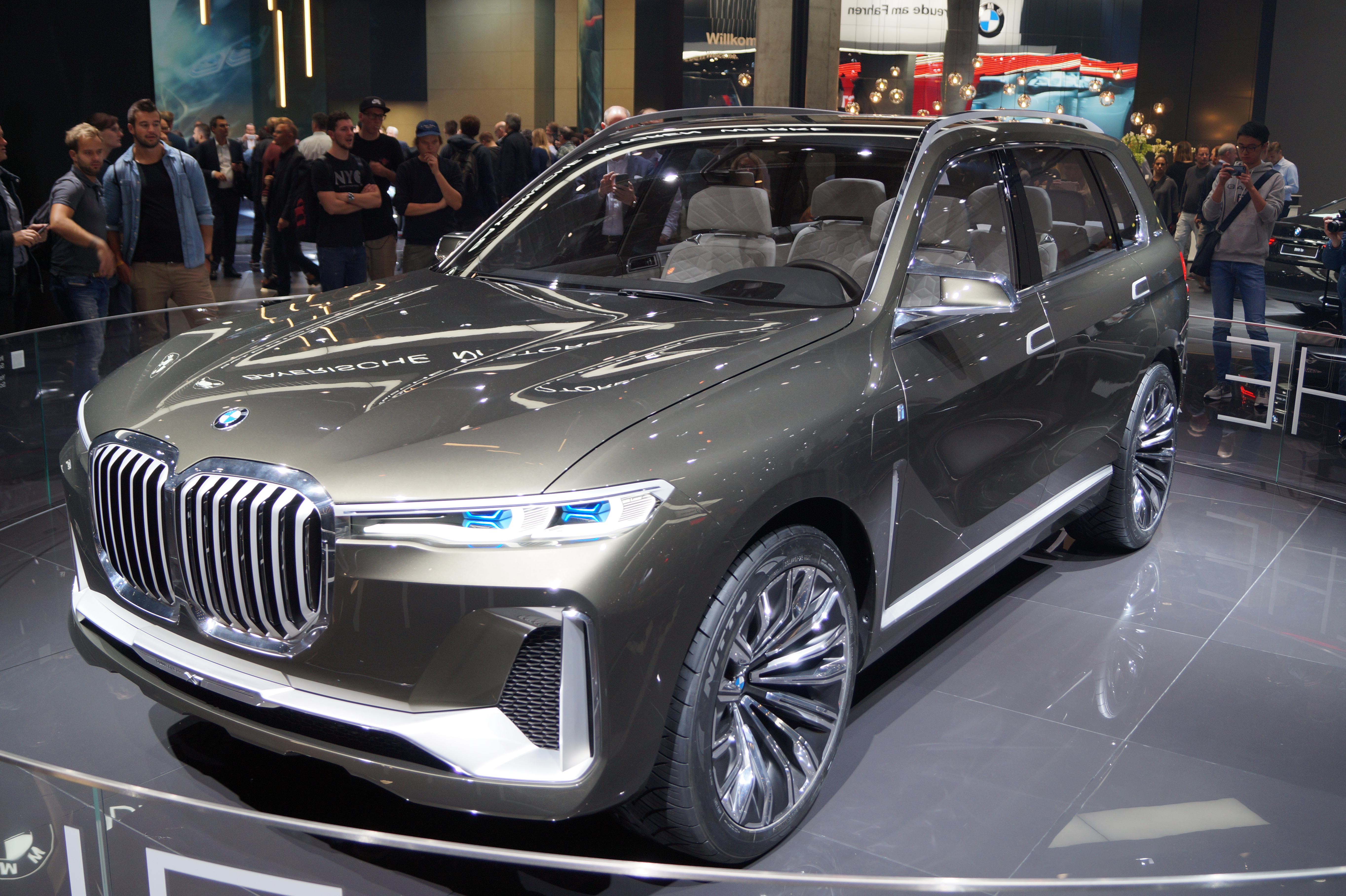 BMW at IAA 2017